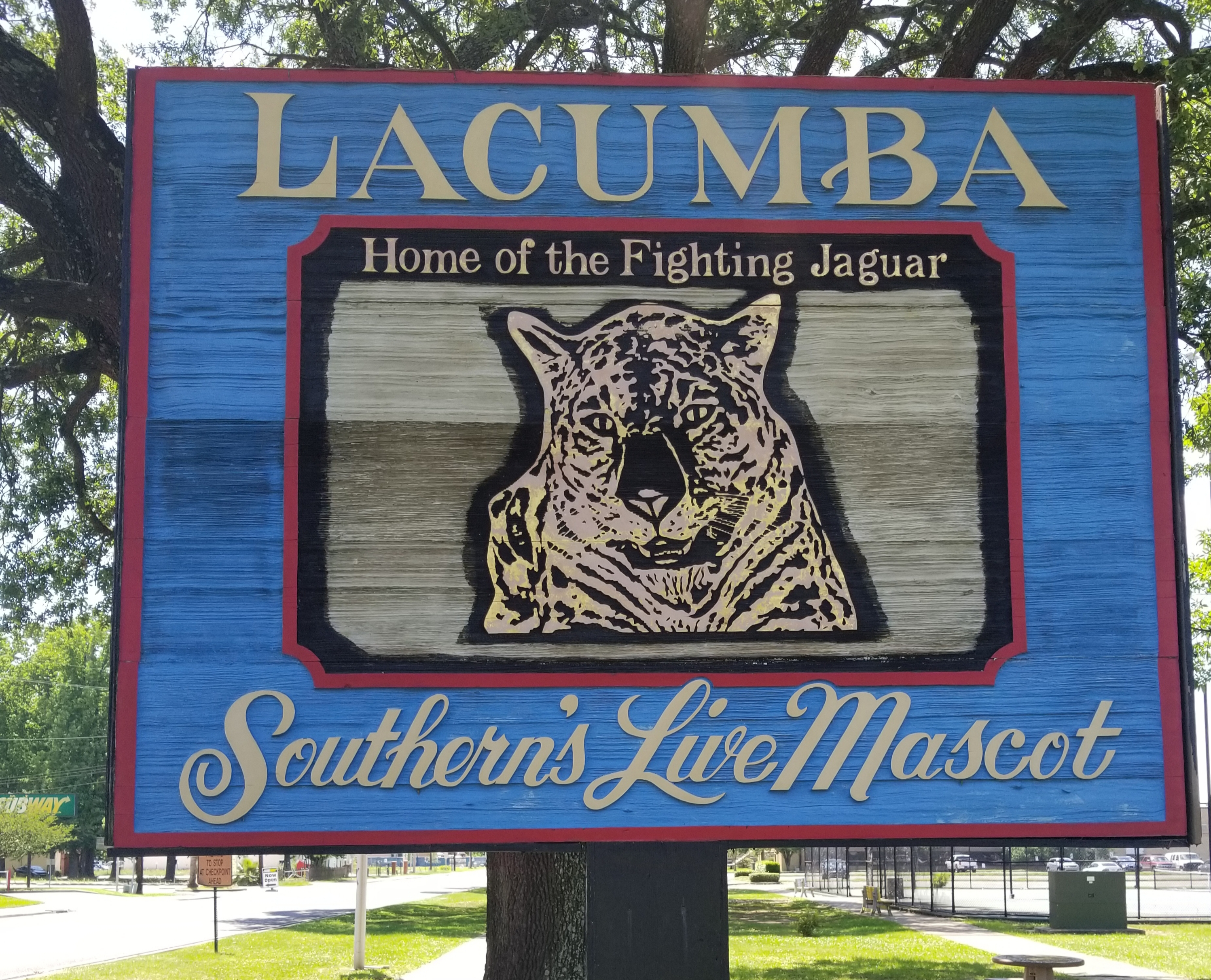 Sign on campus commemorating Lacumba